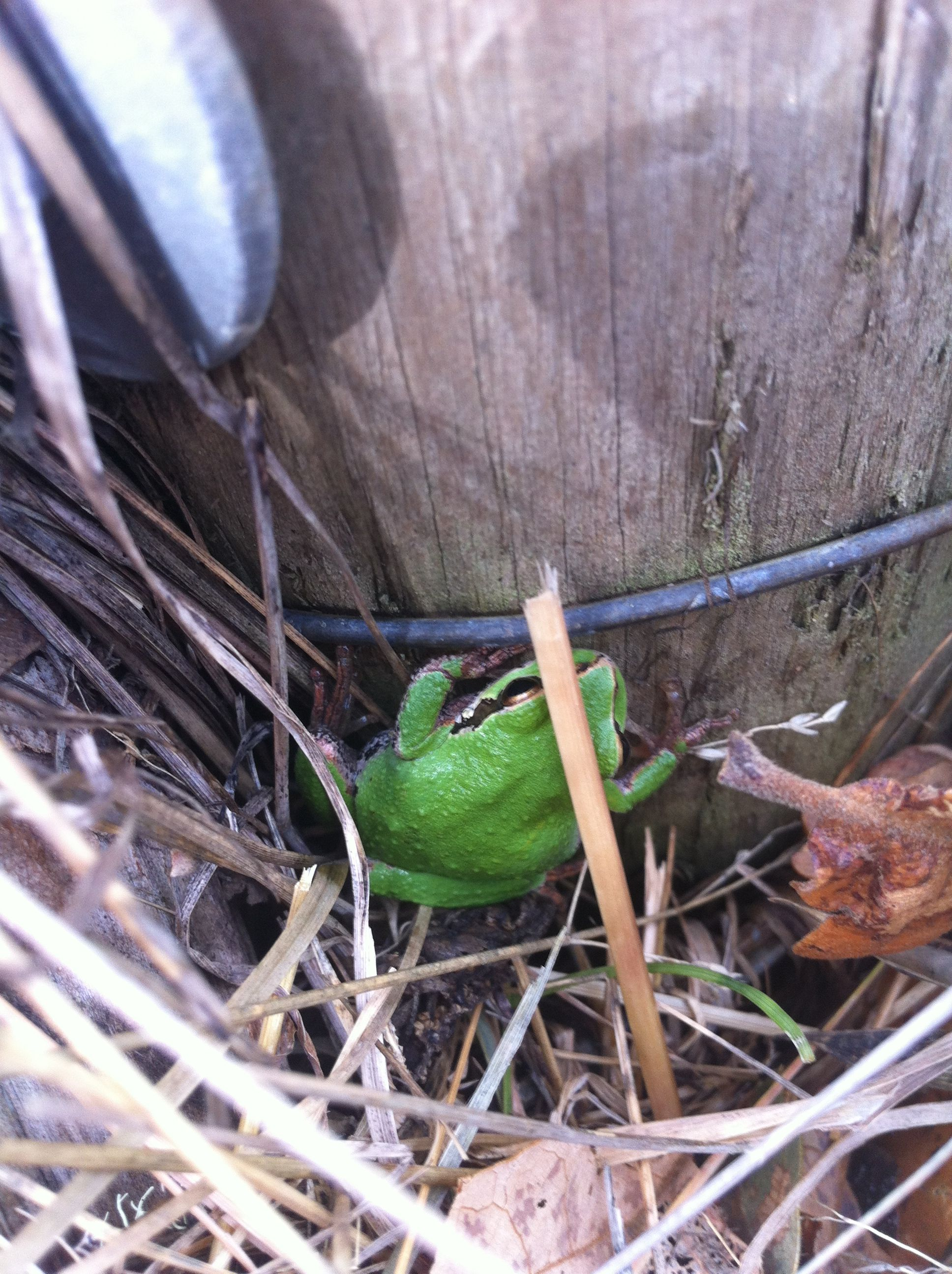 This tree frog is exhibiting a common green color morph, as fall sets into its native Garry oak meadow near Lake Cowichan, British Columbia.